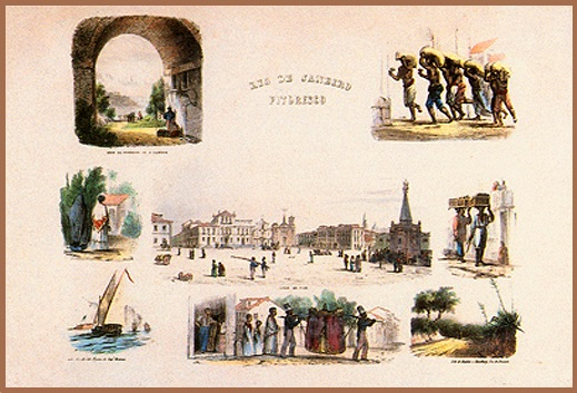 Arco da fortaleza de São Clemente, Largo do Paço, chromolithography of Louis-Auguste Moreaux and Louis Buvelot. From their album Rio de Janeiro pitoresco, published in 1842.